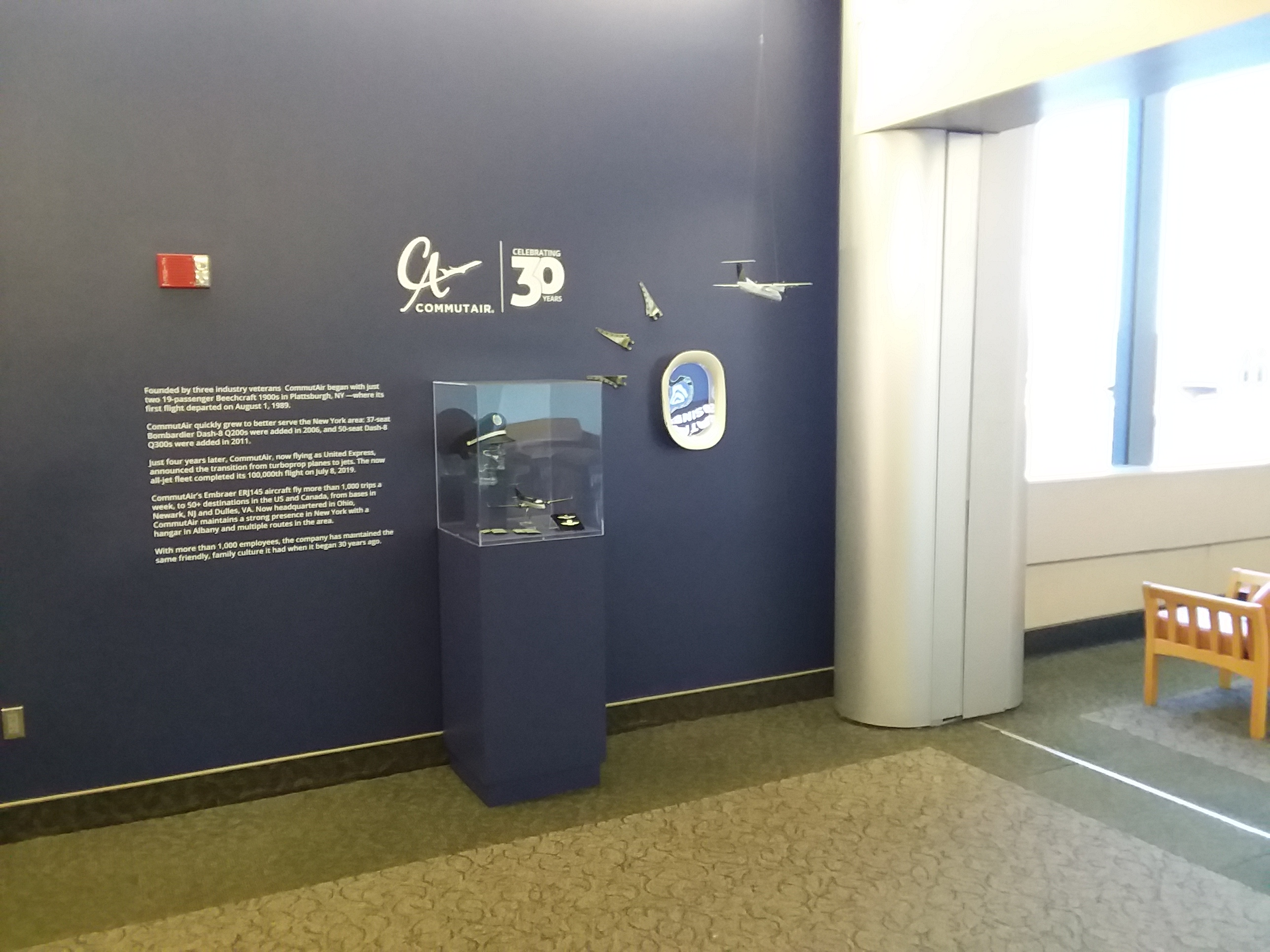 This temporary exhibit was on display in Concourse A in late 2019 to commemorate CommutAir's 30th anniversary. CommutAir had a "microhub" at Albany fromm 2002-2005, and today has their main maintenance base at the airport. The display included a paragraph about CommutAir's history, several crew uniform pieces, and models of the Beechcraft 1900 and Dash 8 aircraft CommutAir used to operate. CommutAir commenced operations in 1989.